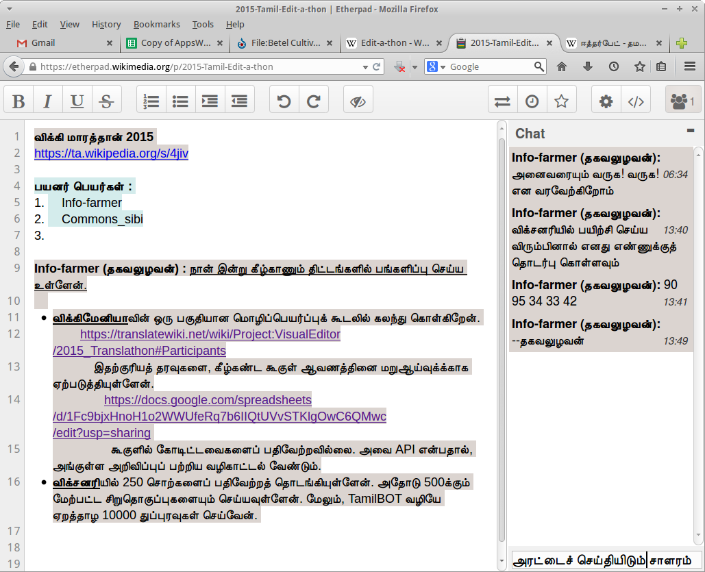 Ethetpad-2015-Tamil-Edit-a-thon (2015-Tamil-Edit-a-thon)